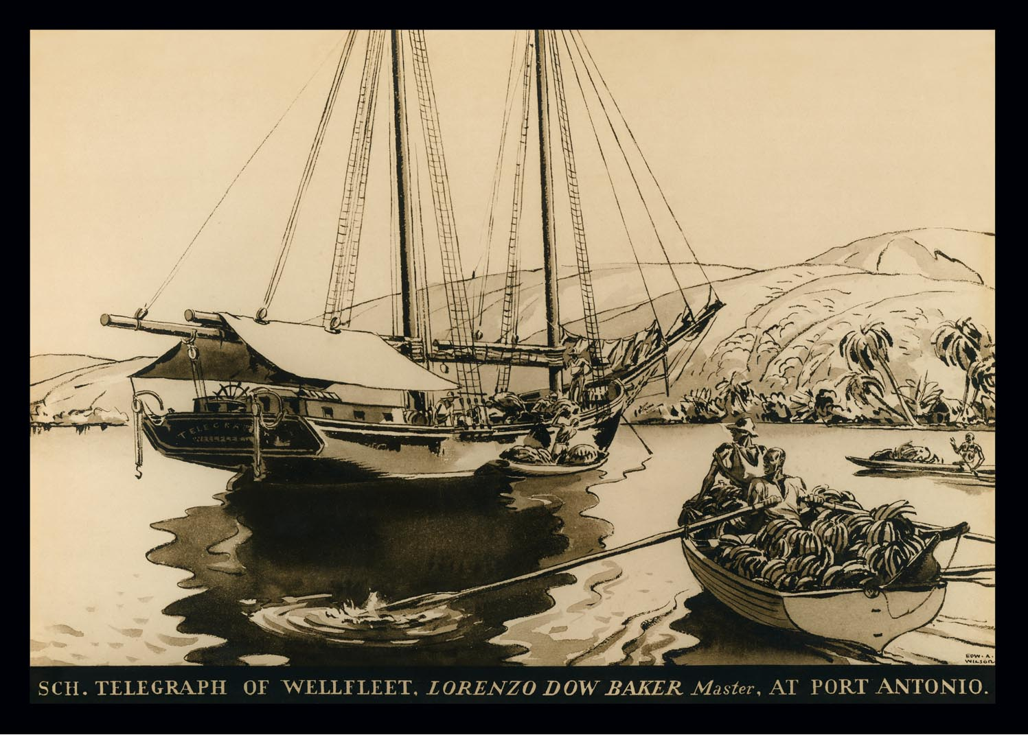 Schooner Telegraph of Wellfleet, LORENZO DOW BAKER Master, at Port Antonio, Jamaica